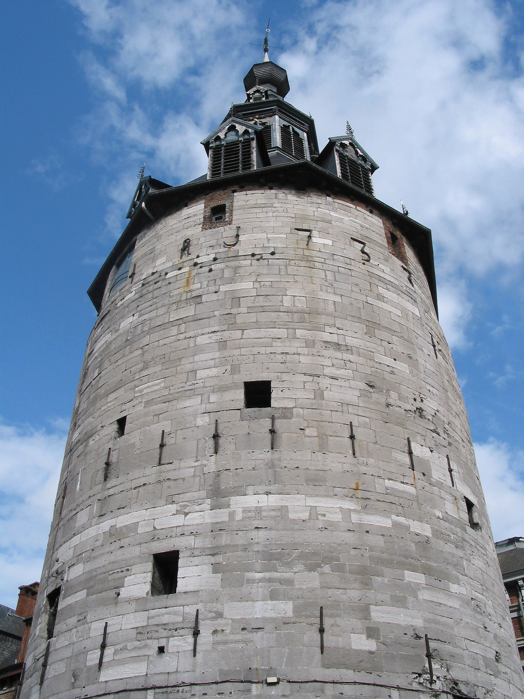 Namur (Belgium), the old belfry (XIVth century).